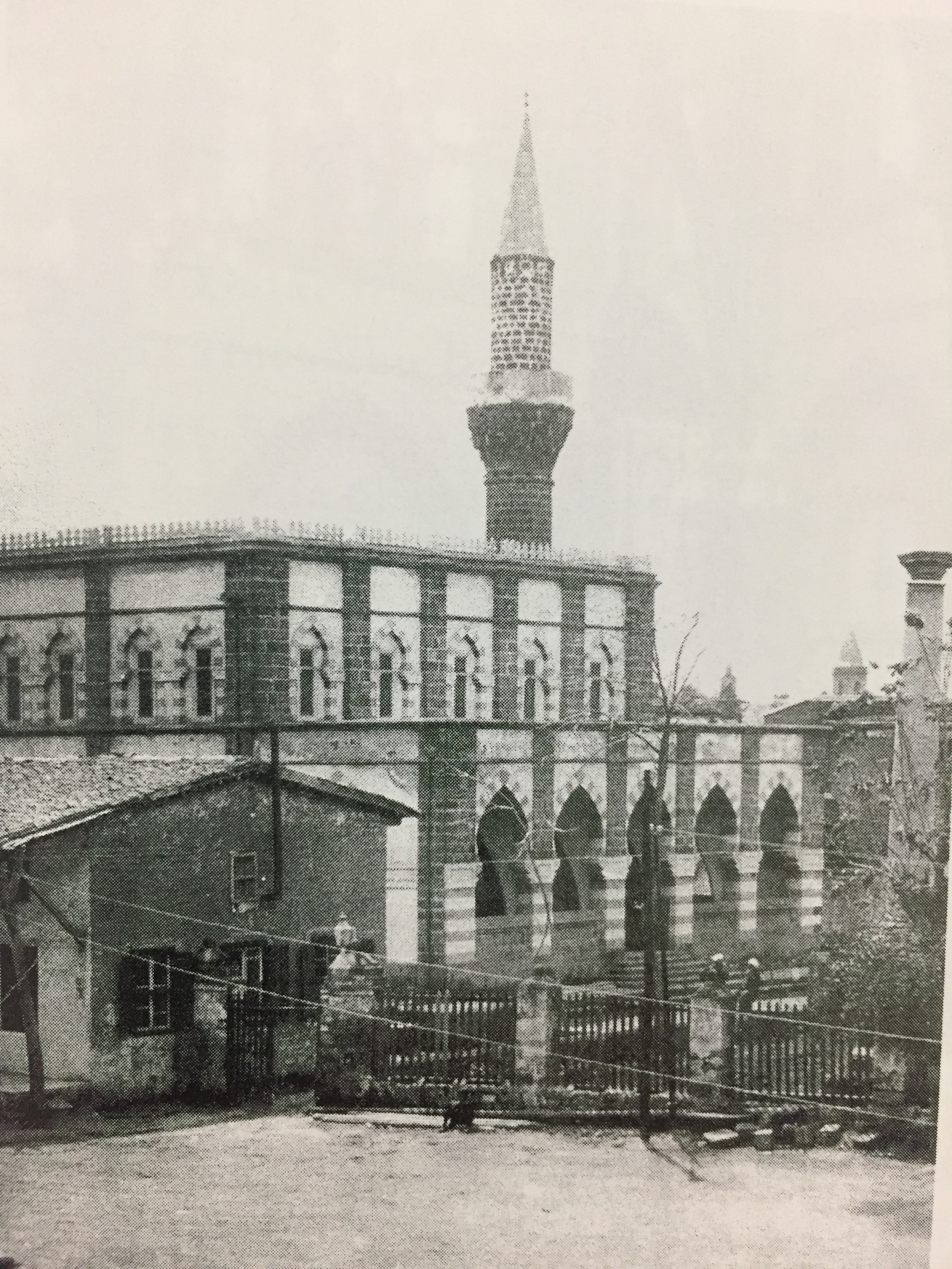 View of Sarayönü Mosque in Nicosia in c. 1913-1915.